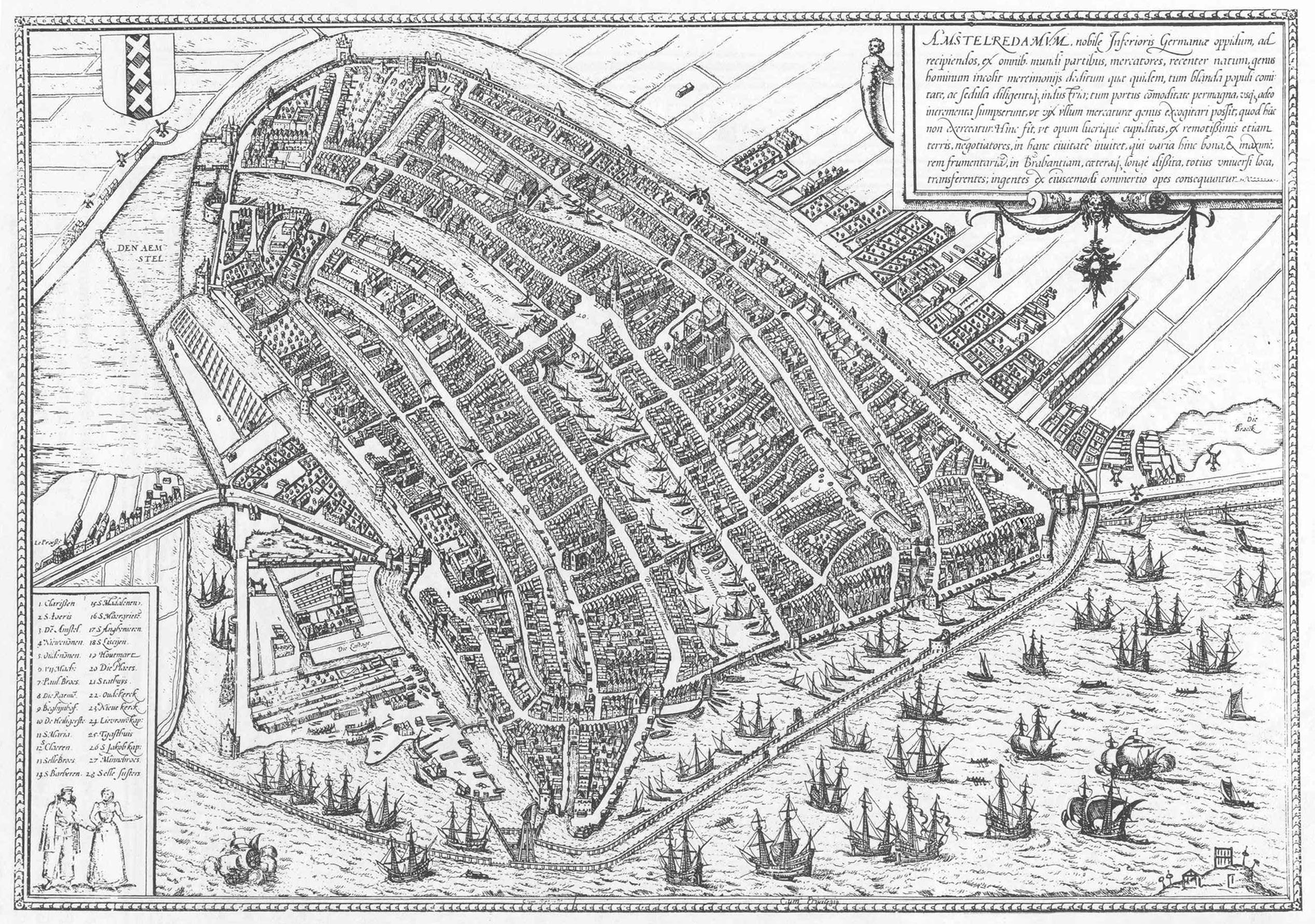 Amsterdam (1574) Braun and Hogenberg